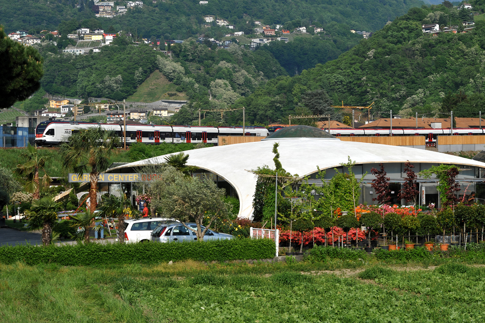 Concrete shell roof (Isler shell) of the Garden Center Bürgi in Camorino, built 1973; Ticino, Switzerland.